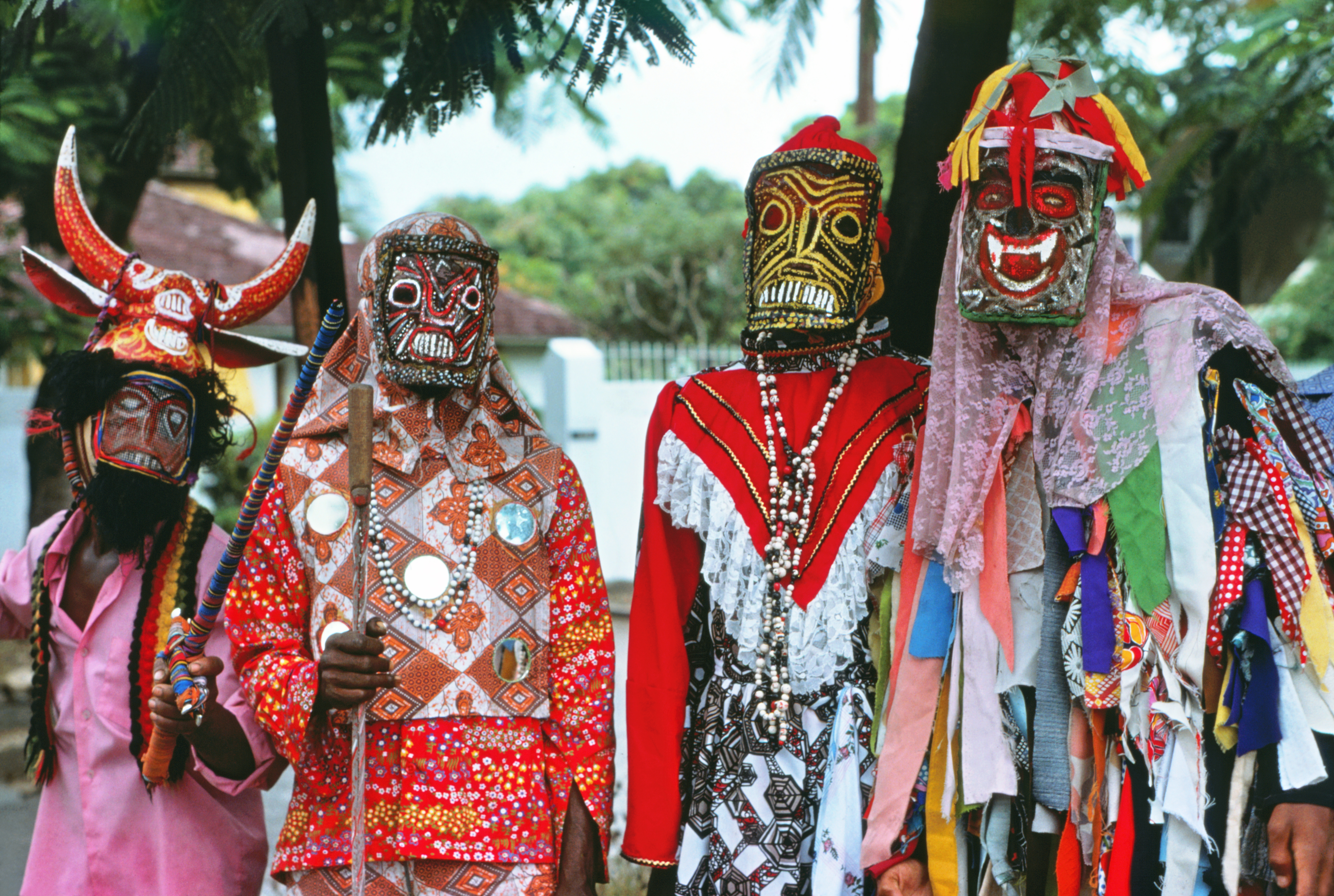 John Canoe Festival celebrants, Kingston, Jamaica, Christmas 1975 (digitized from Kodachrome original)